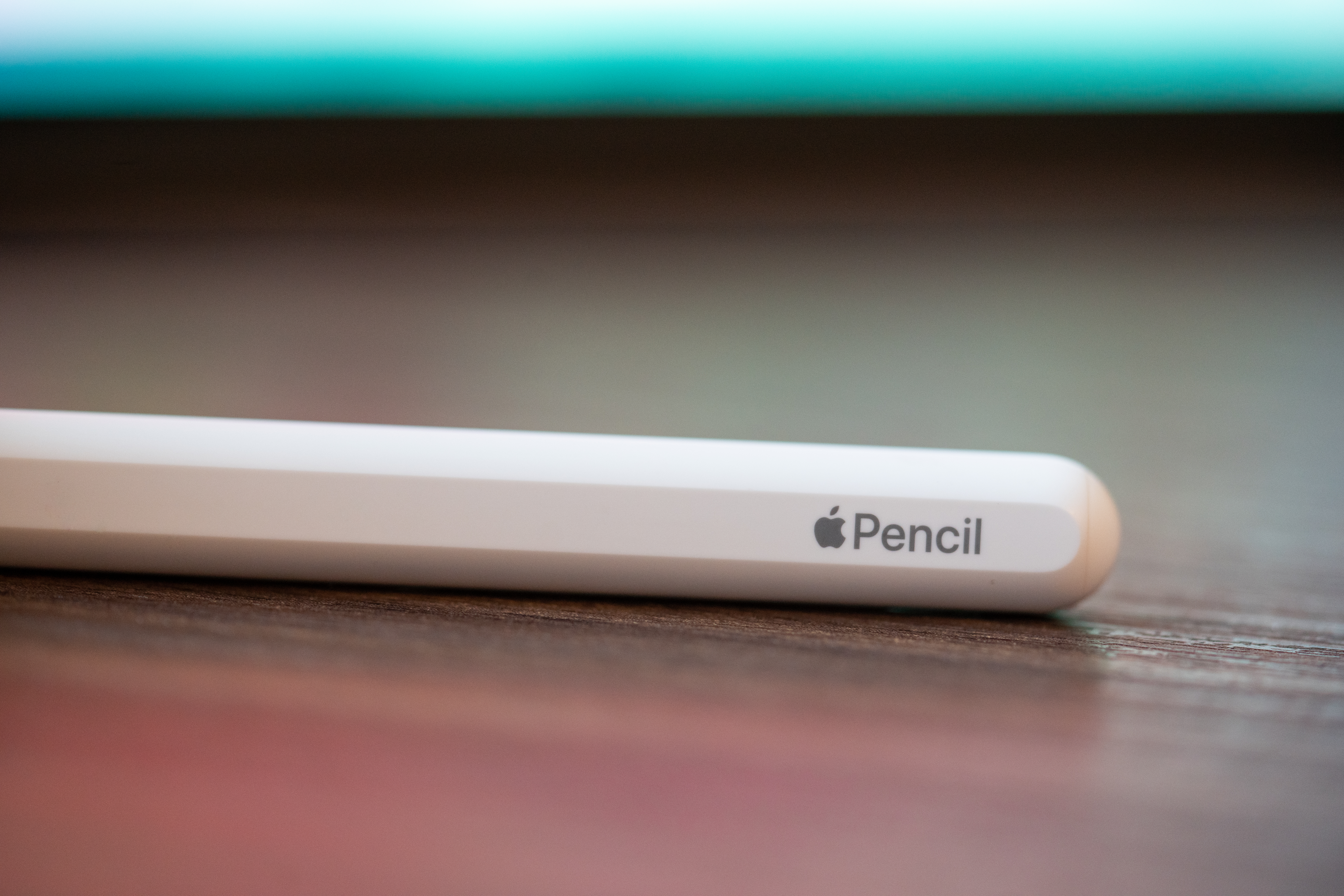 iPad Pro stylus, the Apple Pencil